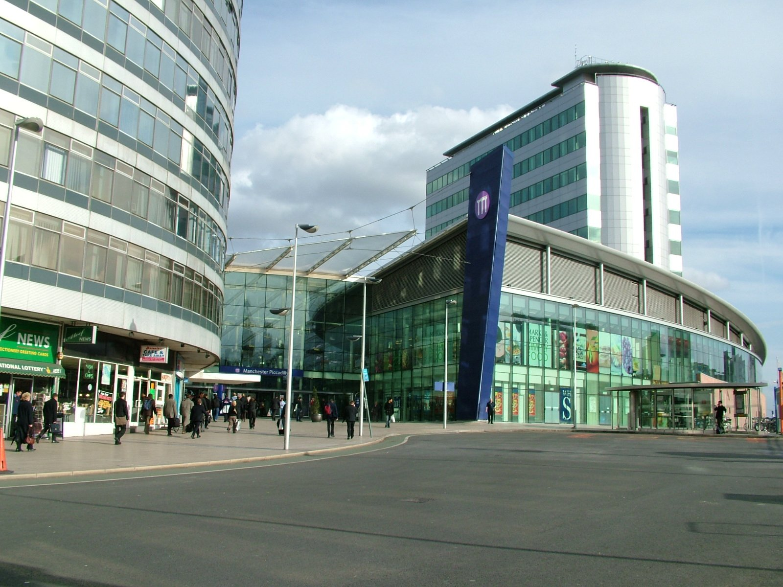 Manchester Piccadilly station approach - April 11 2005 By Tagishsimon (talk) Category:Images of Manchester